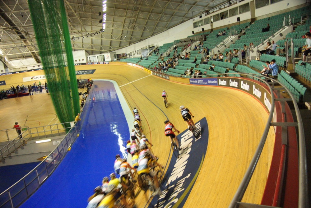 British Cycling 2010 Youth Ominium: Youth A Girls - Scratch Race 8km